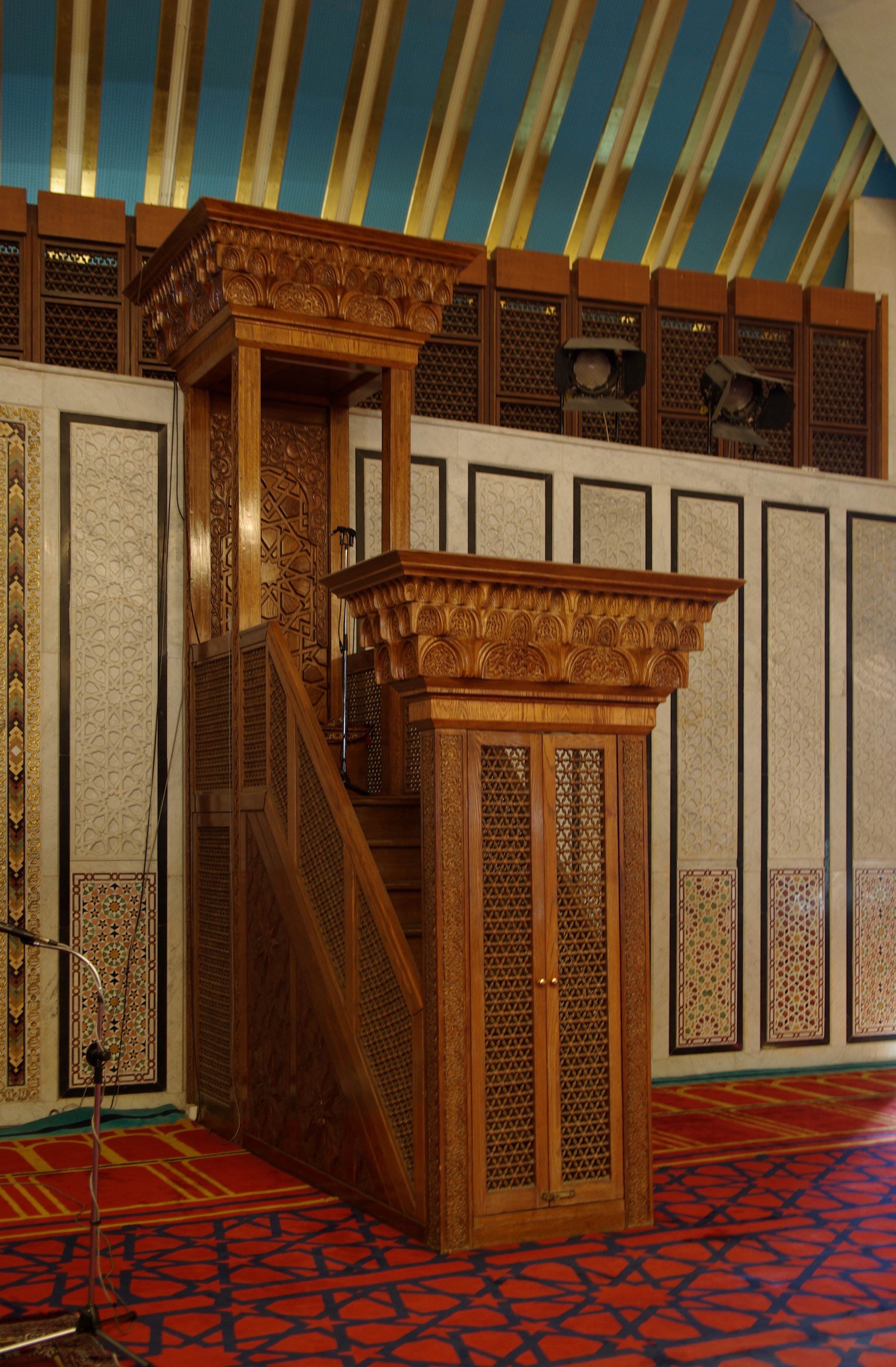 Jordan, Amman, King Abdullah Mosque